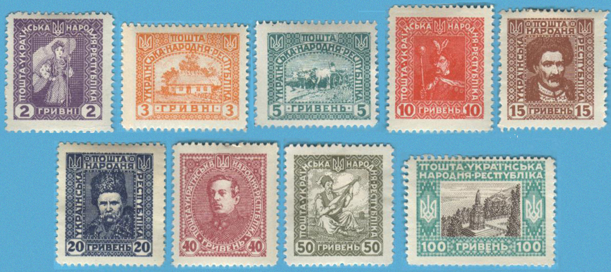 Stamps of Ukrainian People's Republic, The Viennese series, 1920